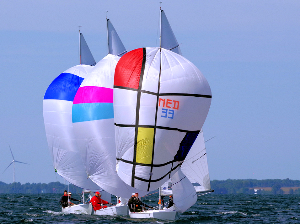 Soling Podium North Americans 2019 downwind